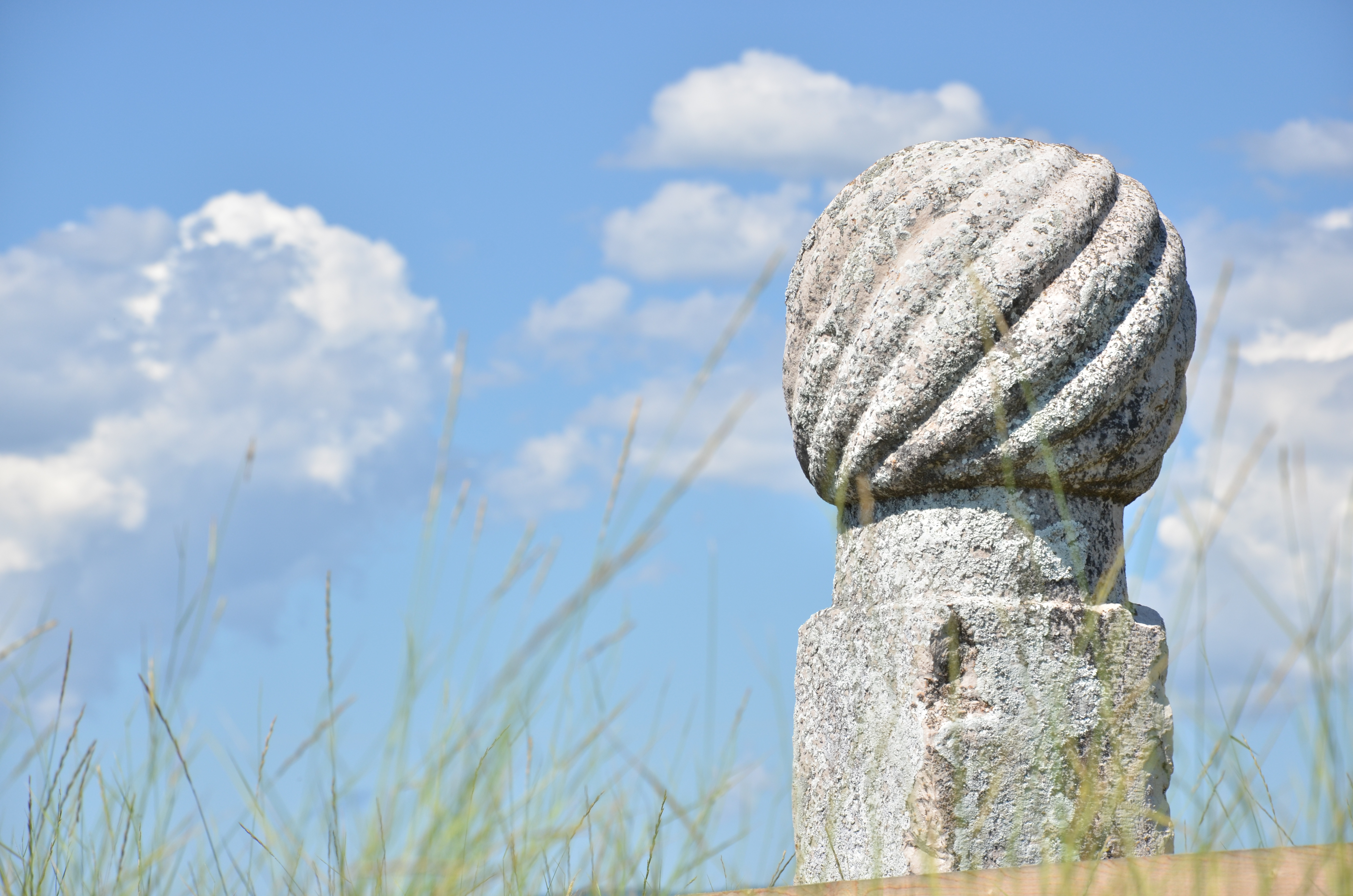 NKD568